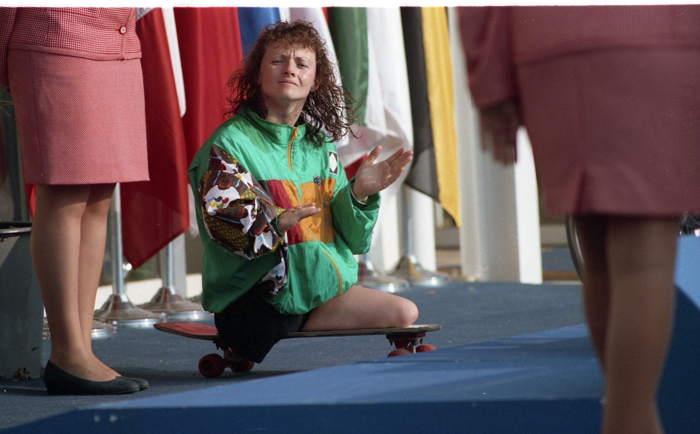 Australian swimmer Anne Curie at the medal ceremony of 1992 Summer Paralympics in Barcelona.